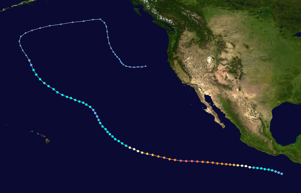 Hurricane Guillermo (1997) track. Uses the color scheme from the Saffir-Simpson Hurricane Scale.